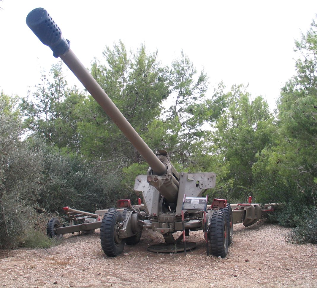 Description: Soviet M-46 130 mm cannon in Beyt ha-Totchan, Zichron Yaakov, Israel. 2005. Source: Photo by me, User:Bukvoed.